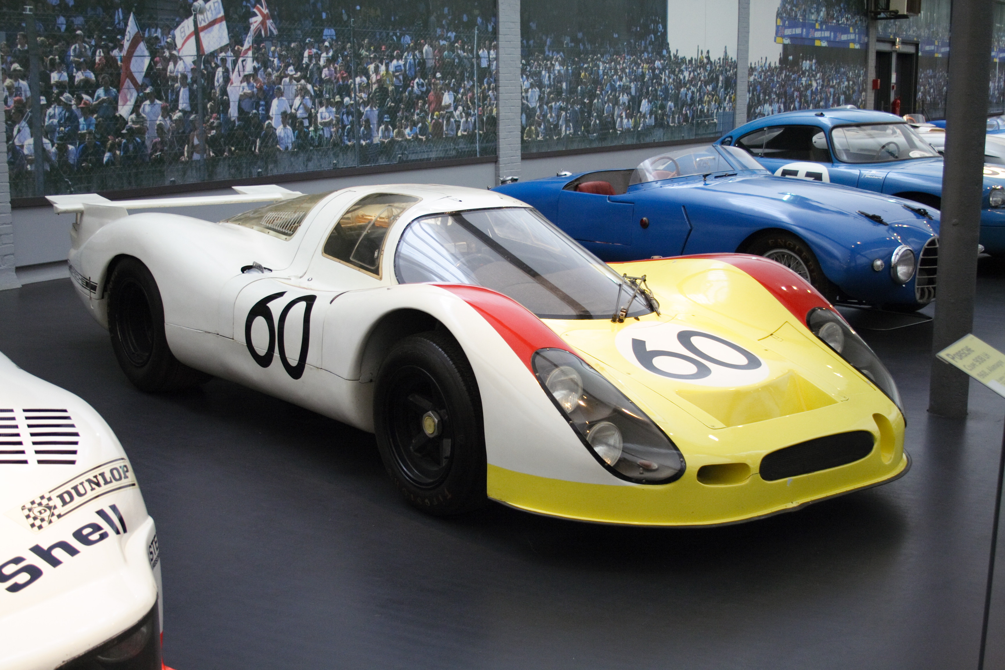 Porsche 908LH 1968 at the Musée National de l'Automobil(Mulhouse, France)